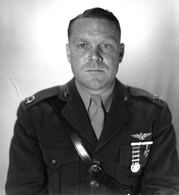 Captain Floyd B. Parks at San Diego, California.